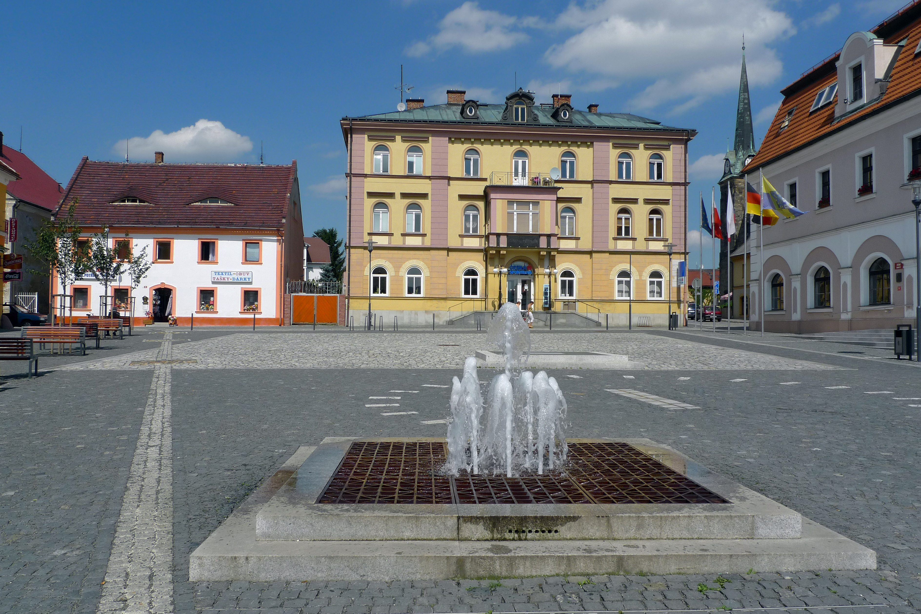 Hrádek nad Nisou, Czech Republic - main square in 2011